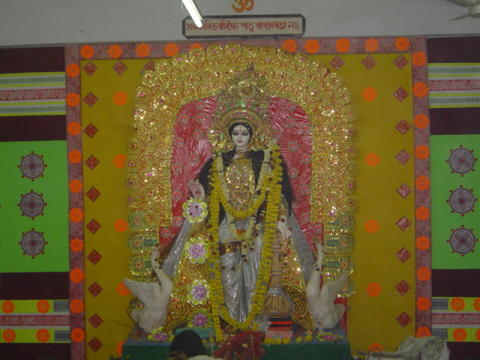 The idol of devi Saraswati in Barasat Peary Charan Sarkar Government High School,year 2005.